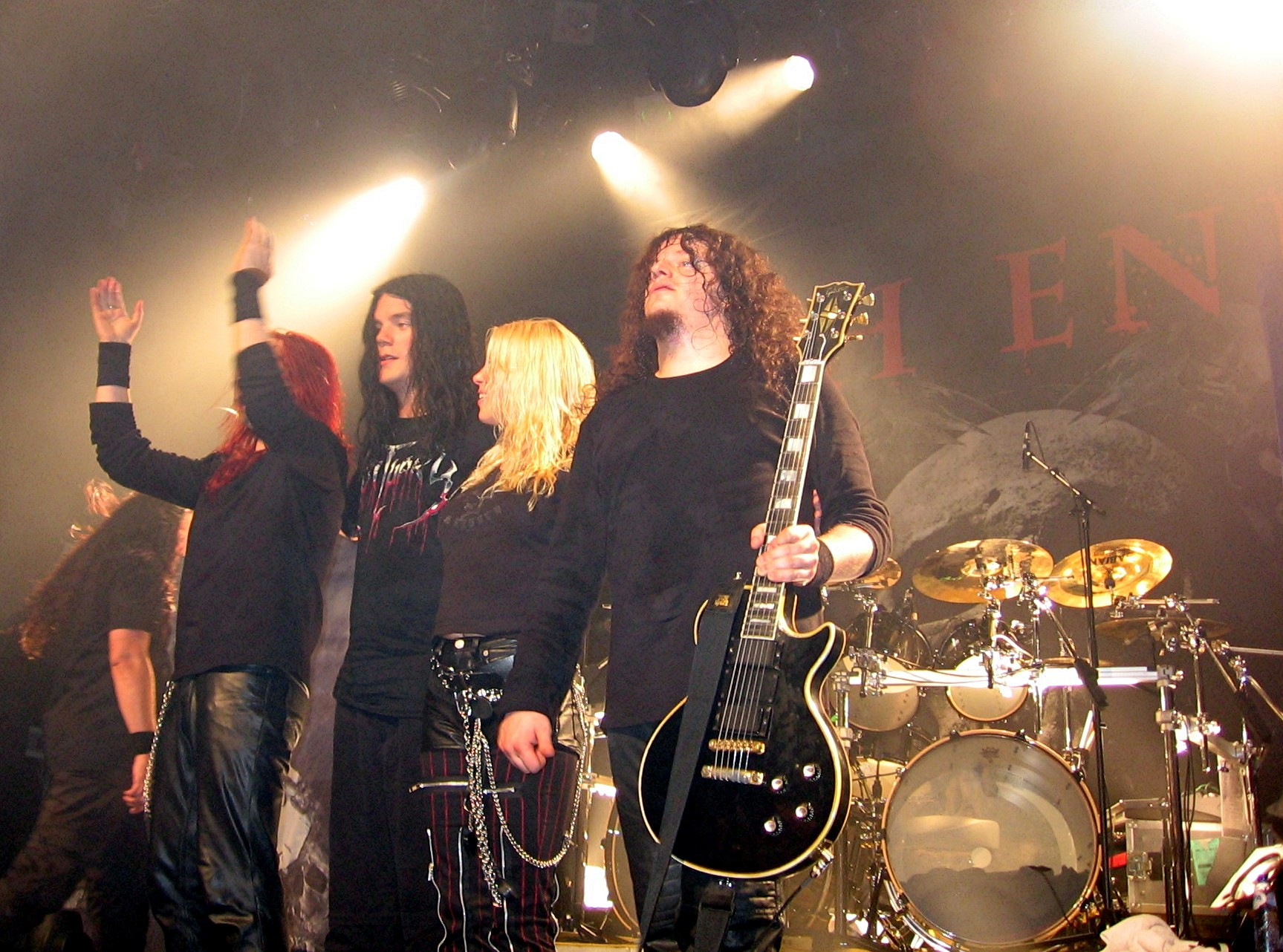 Swedish melodic death metal band Arch Enemy